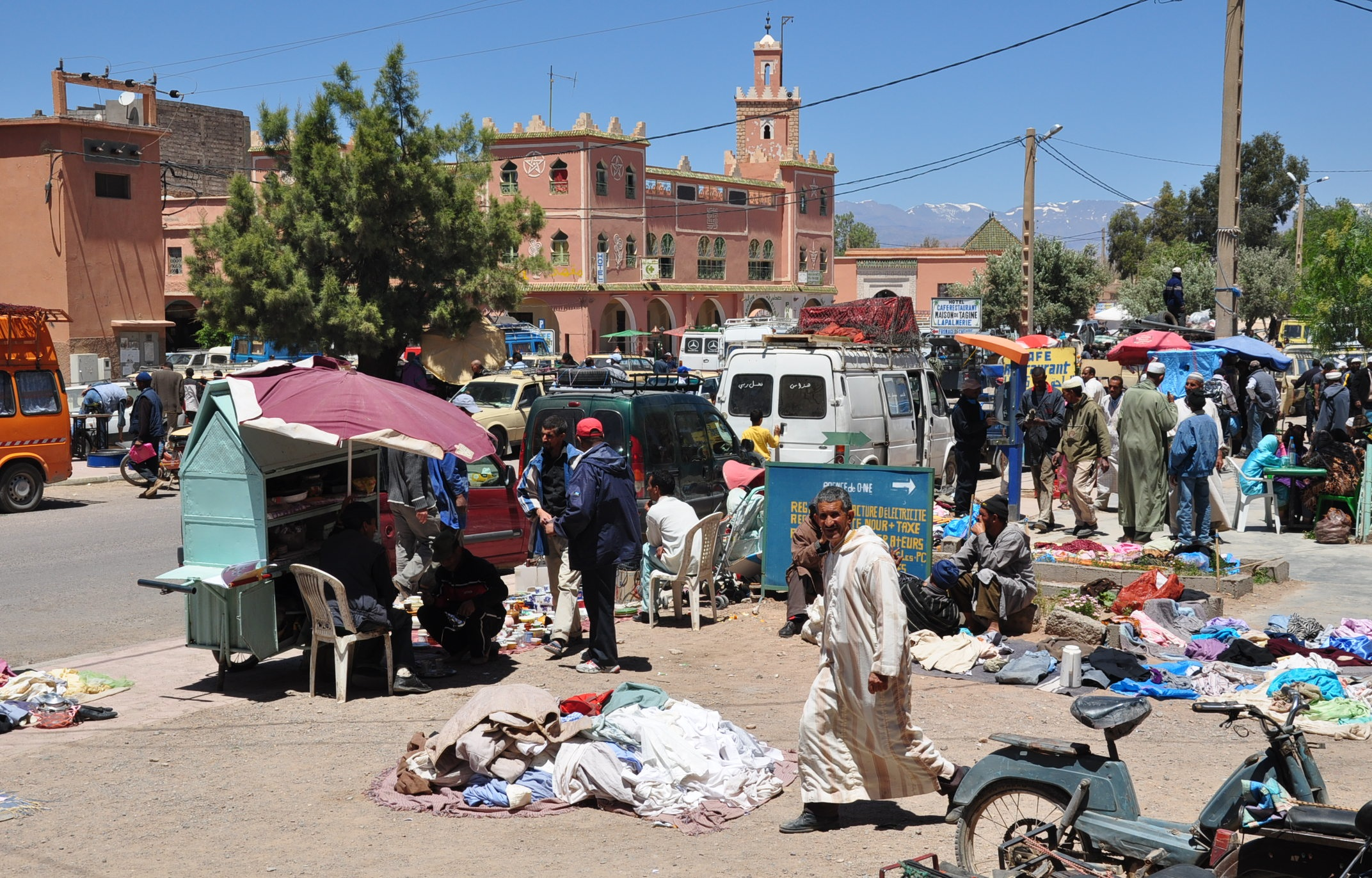 Scene in central Skoura on market day (Morocco, Souss-Massa-Draa region, Ouarzazate Province).